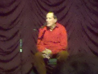 Kenneth Anger at the Indiana University Cinema in Bloomington, Indiana, United States